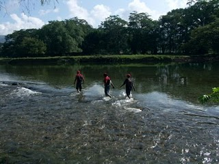 El Río Mapocho en el Valle de Rinconada de Maipú.